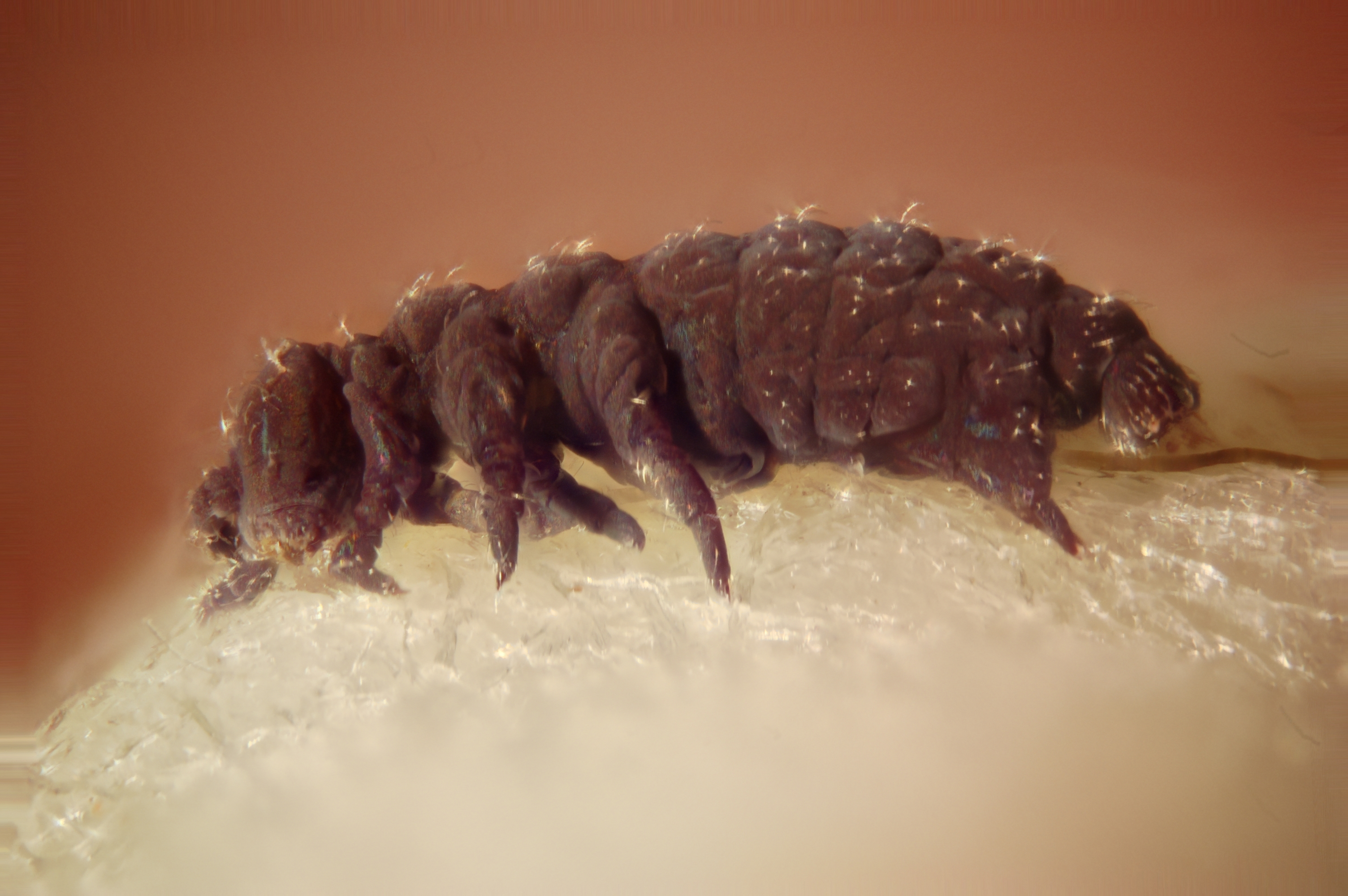 Hot spring Collembola stacked super macro 10X microscope objective lens. This little guy came from the drainage of a hot spring in Lassen County, California. The white fuzzy stuff he is resting on is a "Q-Tip", or an equivalent generic brand of swab. I created this image with my old Nikon D50 DSLR. I used an inexpensive 10X microscope finite objective lens (160mm focal length), mounted on a stack of extension tubes with a Nikon to RMS adapter on the front end of the tube stack. There was no other lens- just the microscope objective- projecting an image directly onto the camera's 23.7 x 15.5mm image sensor. I used Zerene Stacker to stack together 67 photos, combining them into the one you see here. Each image was taken with the subject progressively farther from the lens. I used a micrometer stage from an old optical comparator to move the subject a smidgen before each new frame. Each smidgen was calibrated to allow some slight overlap for the depth of field, to prevent banding in the final image. This allows the extremely shallow (about 12 microns, or 0.00047 inches) DOF to be compensated for, with special software than can "glue together" the individual 12-micron slices of sharp focus into a usable complete image. The image as seen here was the complete frame from the camera (uncropped). At the 10X magnification of the microscope lens, that means that the subject fits into a frame that is 2.4mm across. So the collembolid is a hair under 2mm long, in "real life". Lighting was provided exclusively by a small compact fluorescent bulb in the ceiling of the kitchen where this image was created. Exposure time per frame was 2 seconds. Click here to read the Wikipedia entry about collembolids.